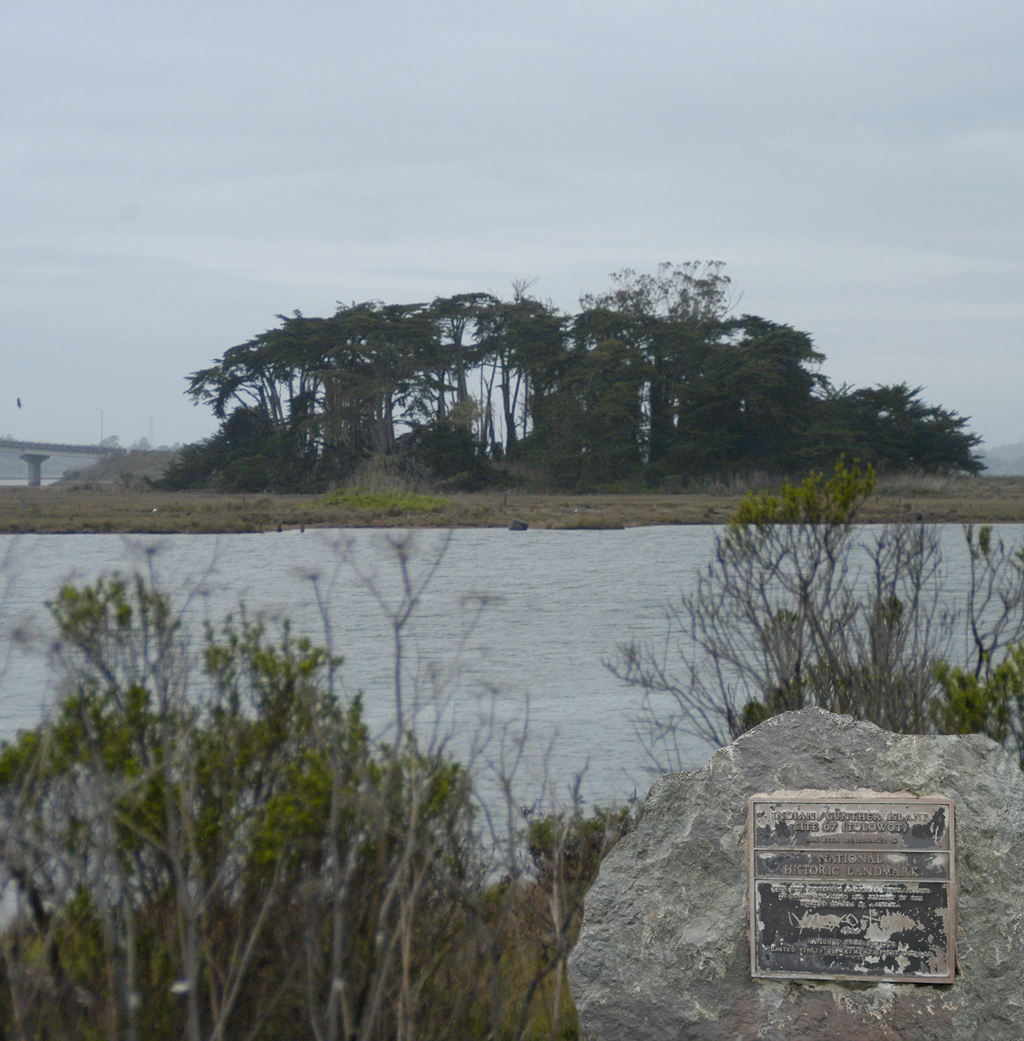 Indian Island — on the coast in Humboldt Bay, Humboldt County, California. View north showing: the National Register Historic Marker; in background the island itself with shell midden of the indigenous Wiyot culture across the channel from the Woodley Island Marina at the end of Startare Drive on Woodley Island. There is no public access to Indian Island (aka: Duluwat Island), it can only be seen from Woodley Island, the Samoa Bridge, or a boat. The site is on the National Register of Historic Places in Humboldt County, California.